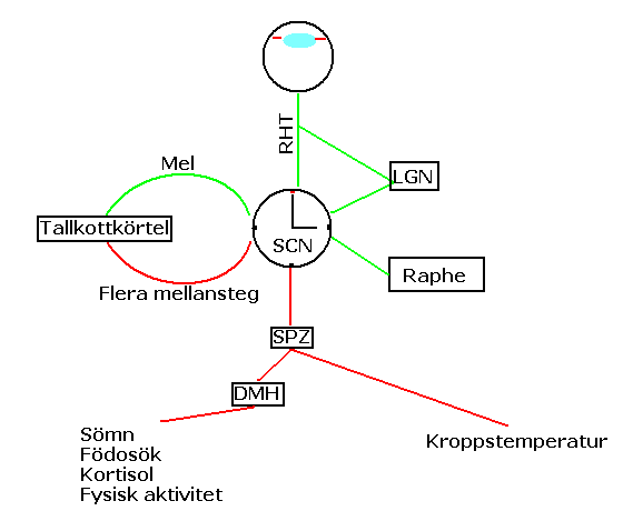 The figure describes the major inputs and outputs of the suprachiasmatic nucleus. Inputs are green and outputs are red.